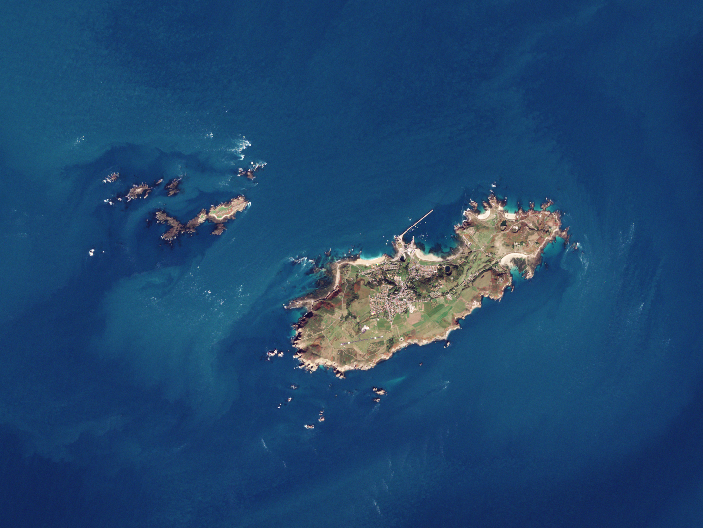 Date: 2018-06-30 Sensor: MSI on Sentinel-2B Resolution: 10m RGB Composites: True color, Band 4-3-2